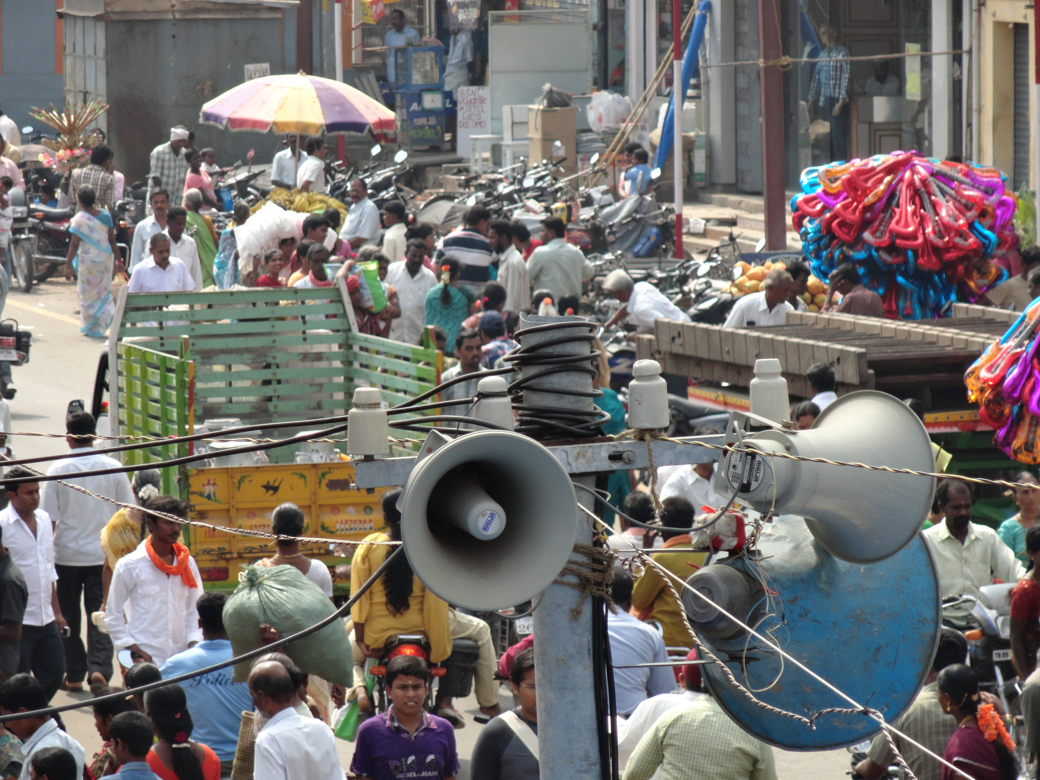 Horn loud speakers that can produce sound in very high decibel, often accused of creating noise pollution. Pictured when they were being used in a festival in Tiruvannamalai, a town in TamilNadu, South India.